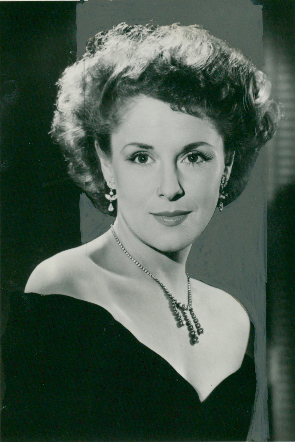 Actress Betty Paul who has leading role in the new farcical comedy, "All for Mary" by Kay Bannerman and Harold Brooke, which, represented by Henry Sherek, opens a two week season at the Theatre Royal, Brighton on August 9th, prior to West End presentation.